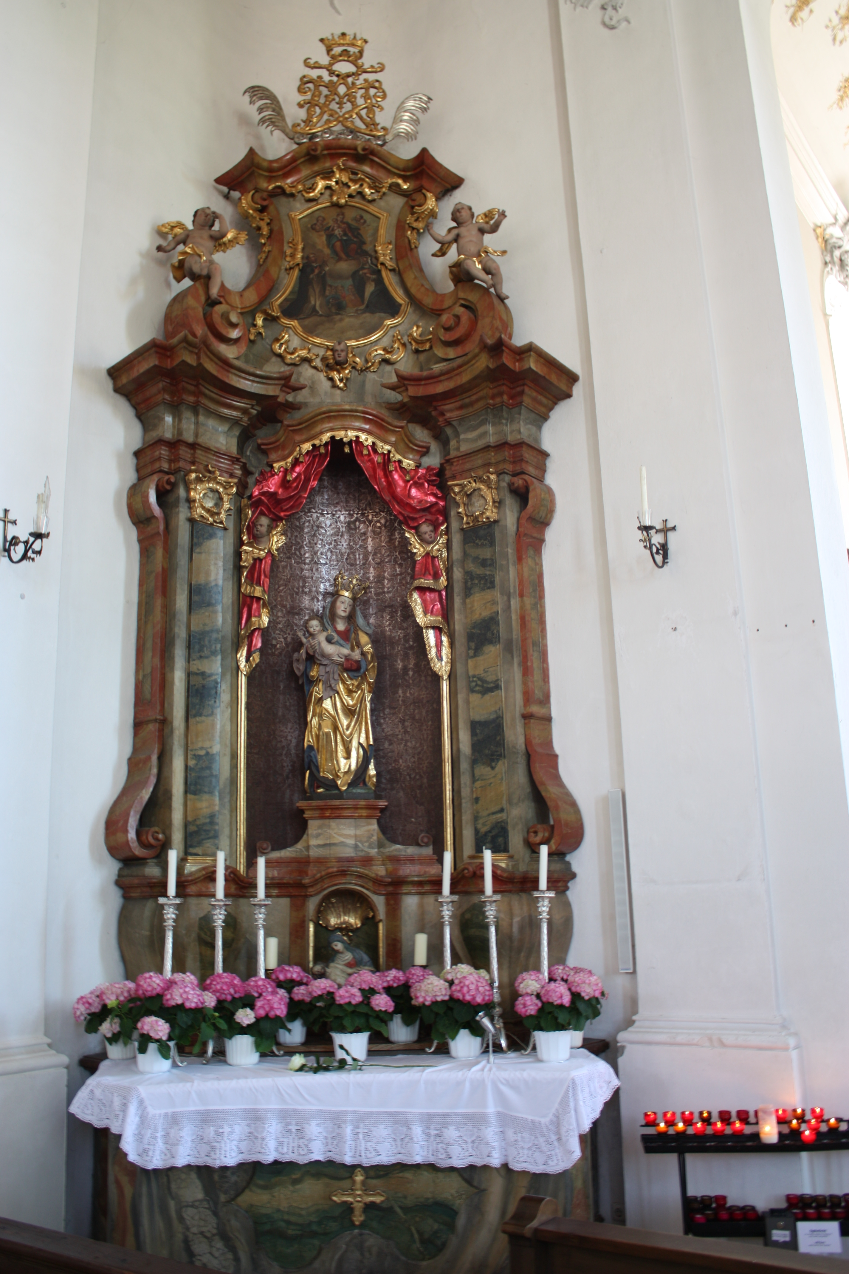 St. Ulrich (Amendingen) - Google Maps - Google Earth